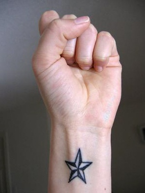 My second tattoo. This one hurt a lot more, didn't expect that. Definitely learned that the hard way. Once again, the tattoo is still in the process of healing at the time.